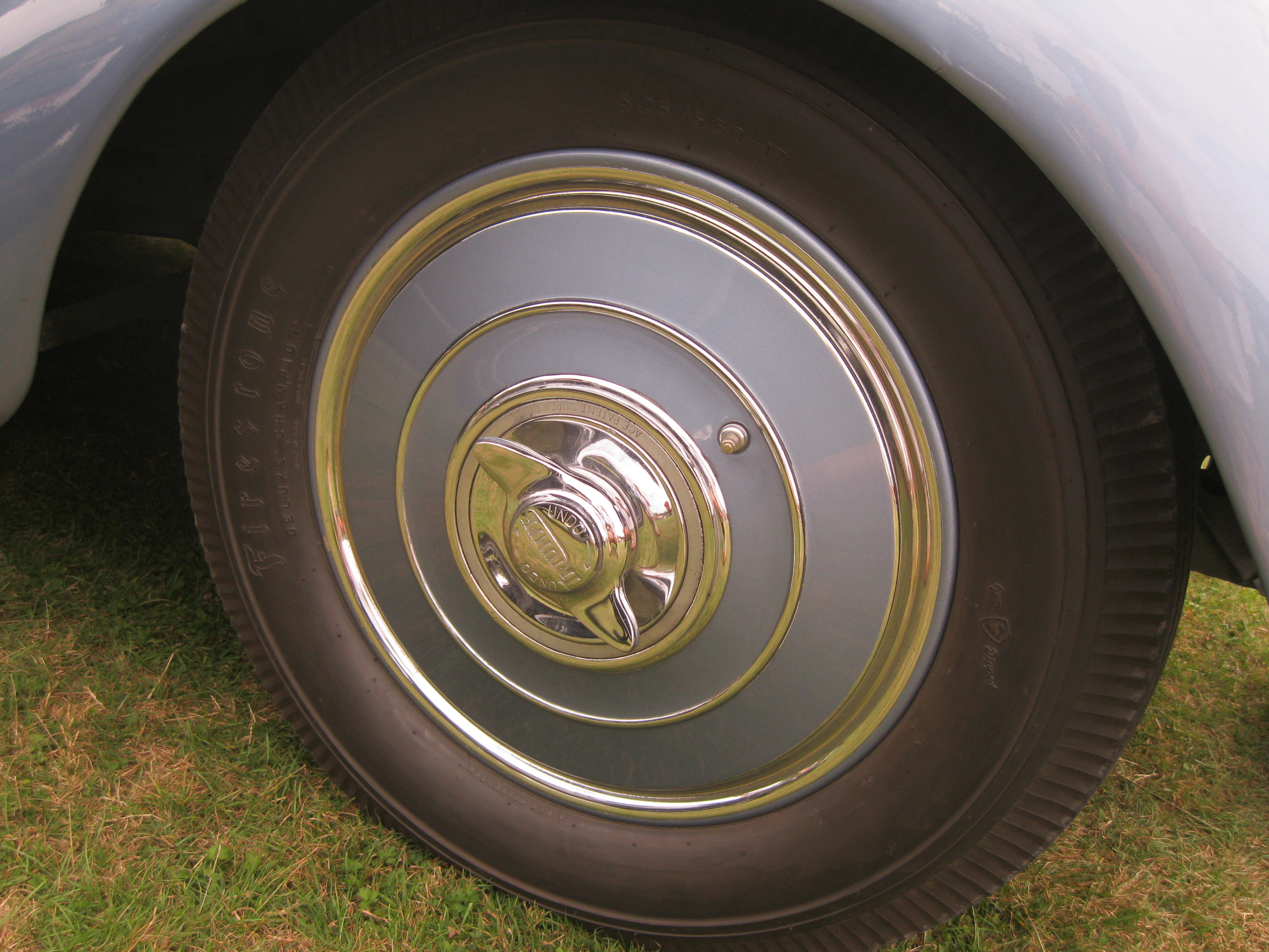 Wire wheel (for lightness and precision construction) covered with nave plate (for modern streamlined appearance and also easy cleaning)Triumph Dolomite Roadster Coupé (DVLA) first registered 26 June 1940, 1767cc Spotted at the Bluebell Railway Historic Transport Weekend on 10.08.13